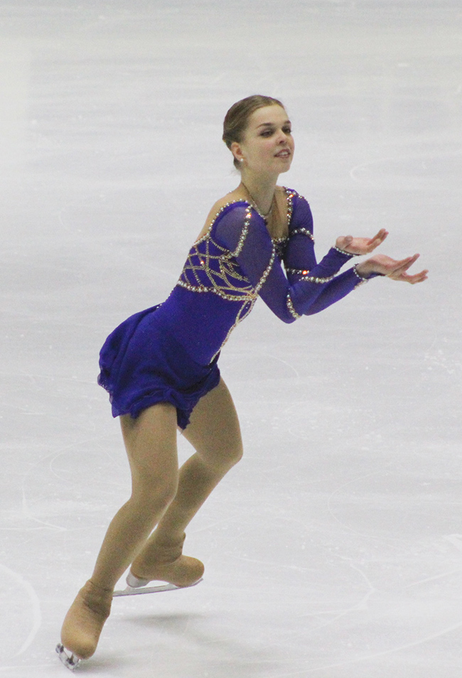 Nicole Rajicova 2015